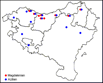 Author: Sugaar Source: X. Peñalver, Euskal Herria en la Prehistoria, 1996. ISBN 84-89077-58-4 Legend: Main Magdalenian (red) and Azilian (blue) sites in the Basque Country